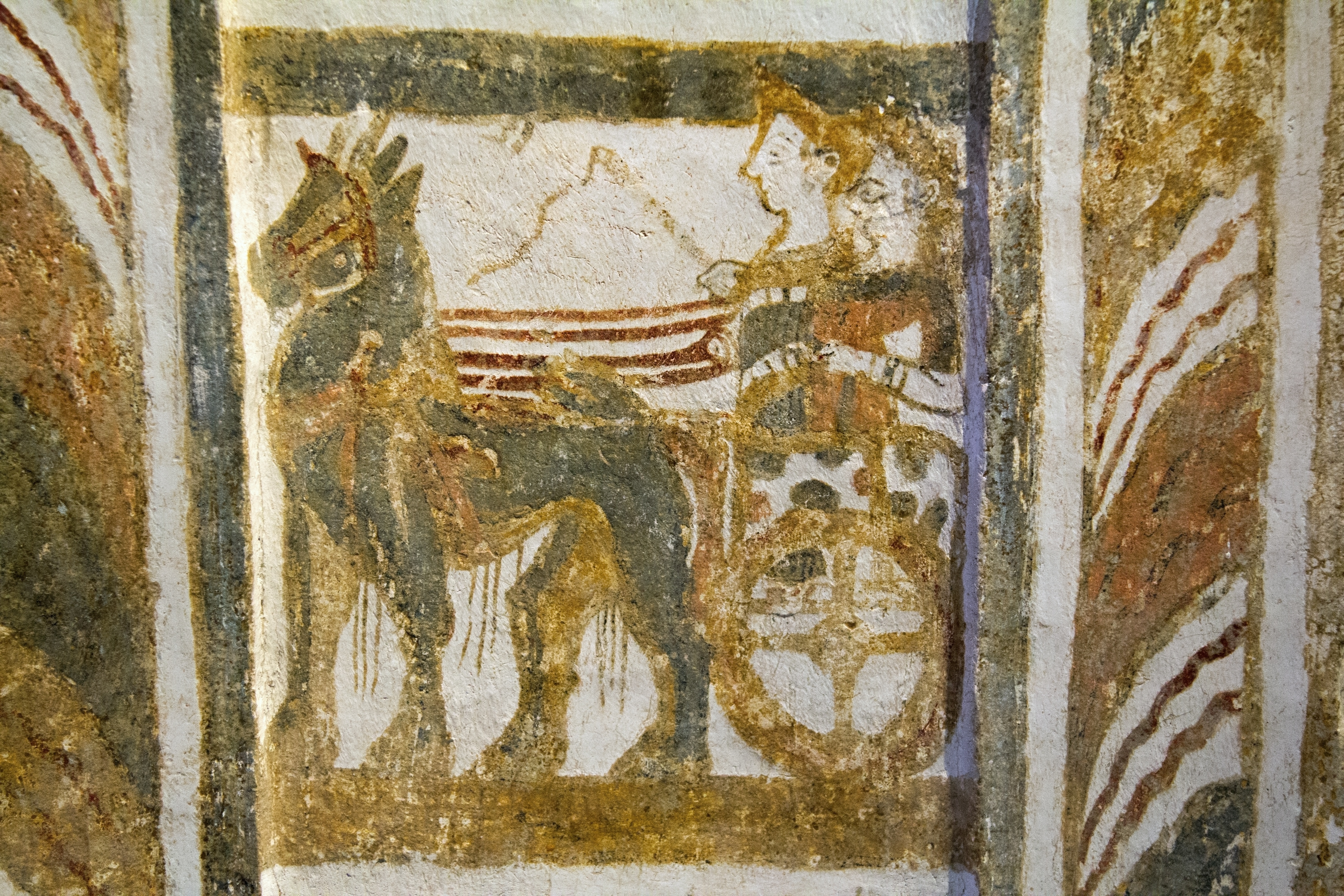 Sarcophagus of Agia Triada, short side. Carriage with a horse. In the carriage are people. 1370-1320 BC. Archaeological Museum of Heraklion.